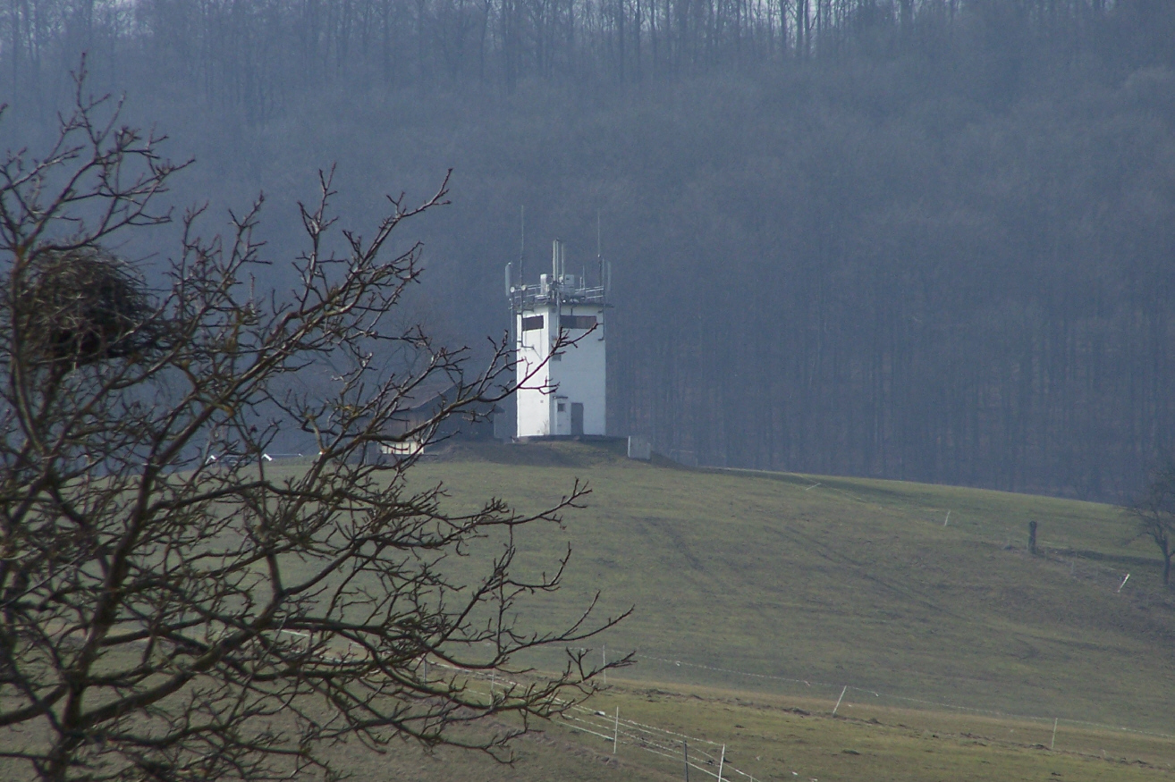 A historical border watchtower near Ifta.